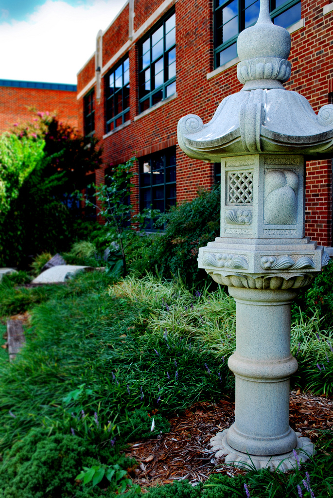 Monument located in the International Friendship Garden at the City of Stillwater Community Center